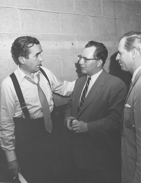 Edward R. Murrow and Bill Downs talk as Ron Cochran looks on